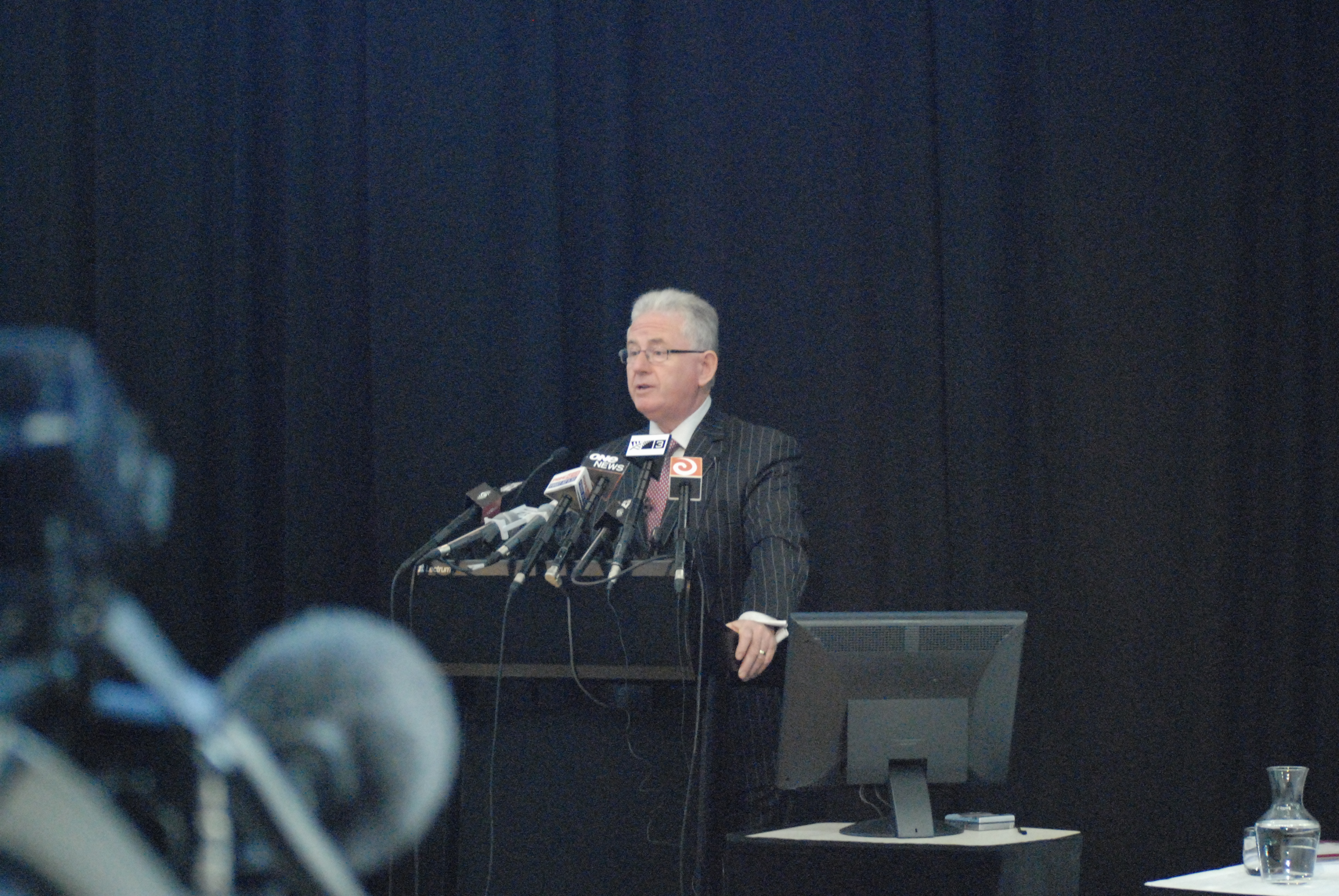 Deputy Prime Minister & Treasury of New Zealand Government Michael Cullen delivering the 2008 budget press conference in the ballroom of the Beehive in Wellington,New Zealand.